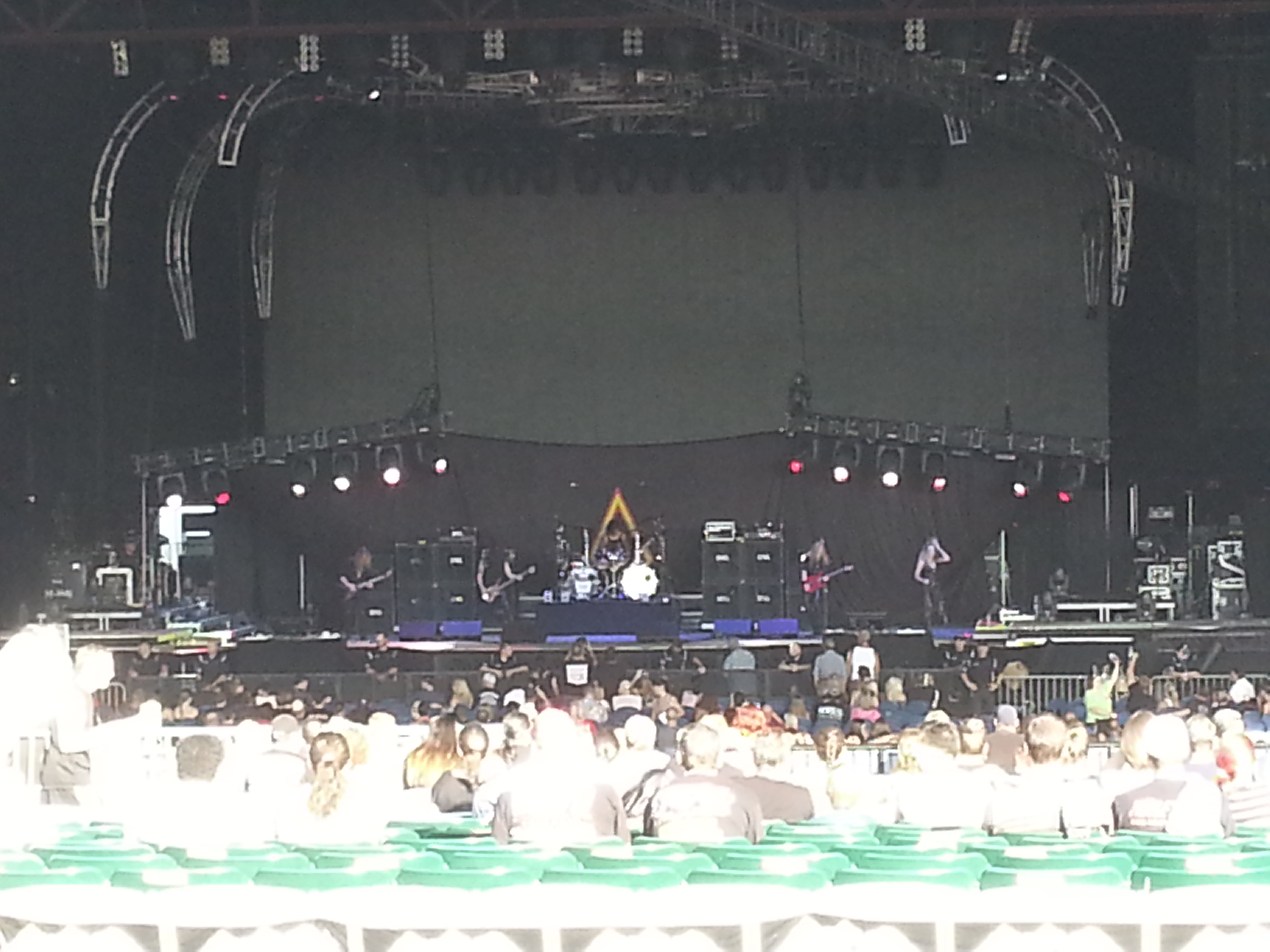 Kobra and the Lotus